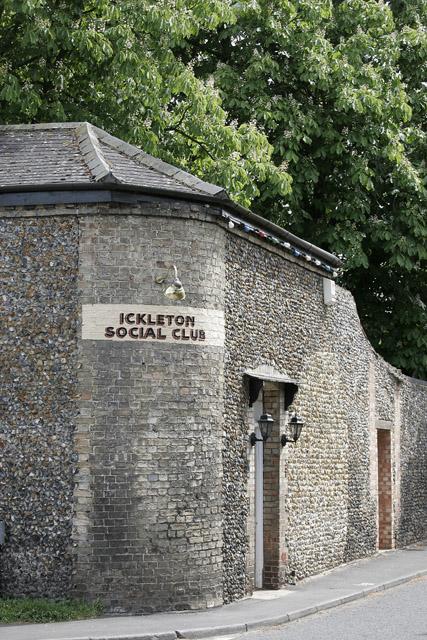 Ickleton Social Club Very flinty with lovely horse chestnuts again.